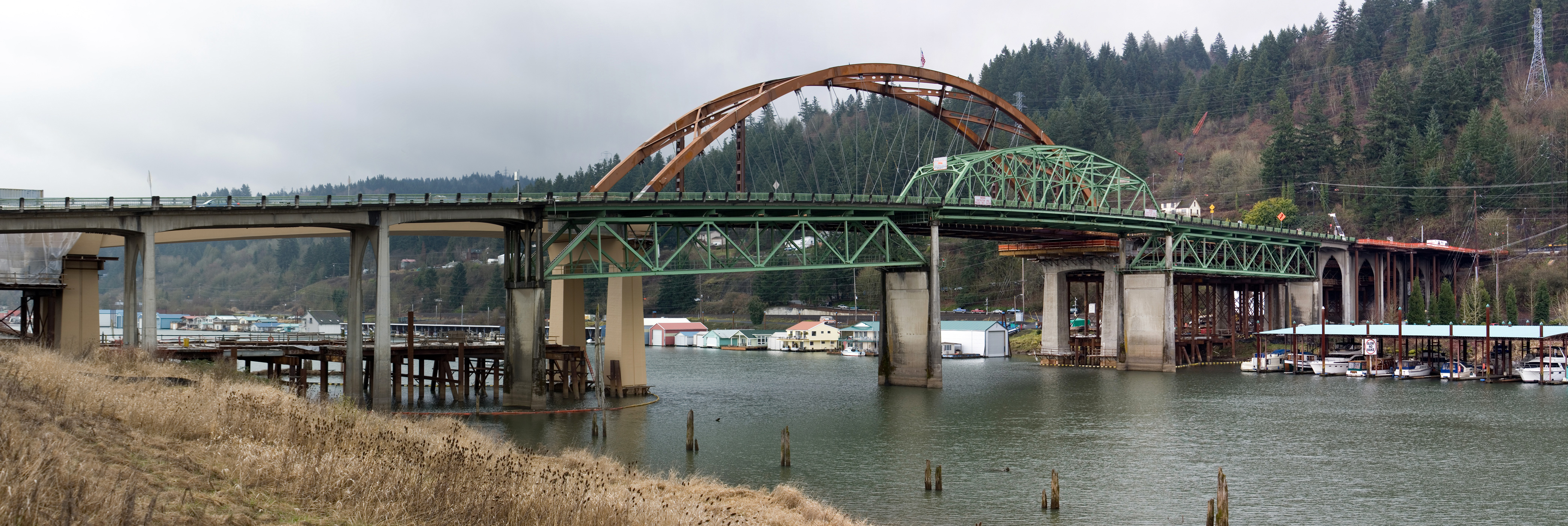 The Sauvie Island Bridges crossing the Multnomah Channel near Portland, Oregon. The old Sauvie Island Bridge is in the foreground, with the new bridge nearing completion in the background.